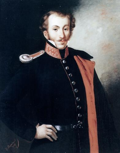 Portrait of Dimitrios Ypsilantis, hero of the Greek War of Independence